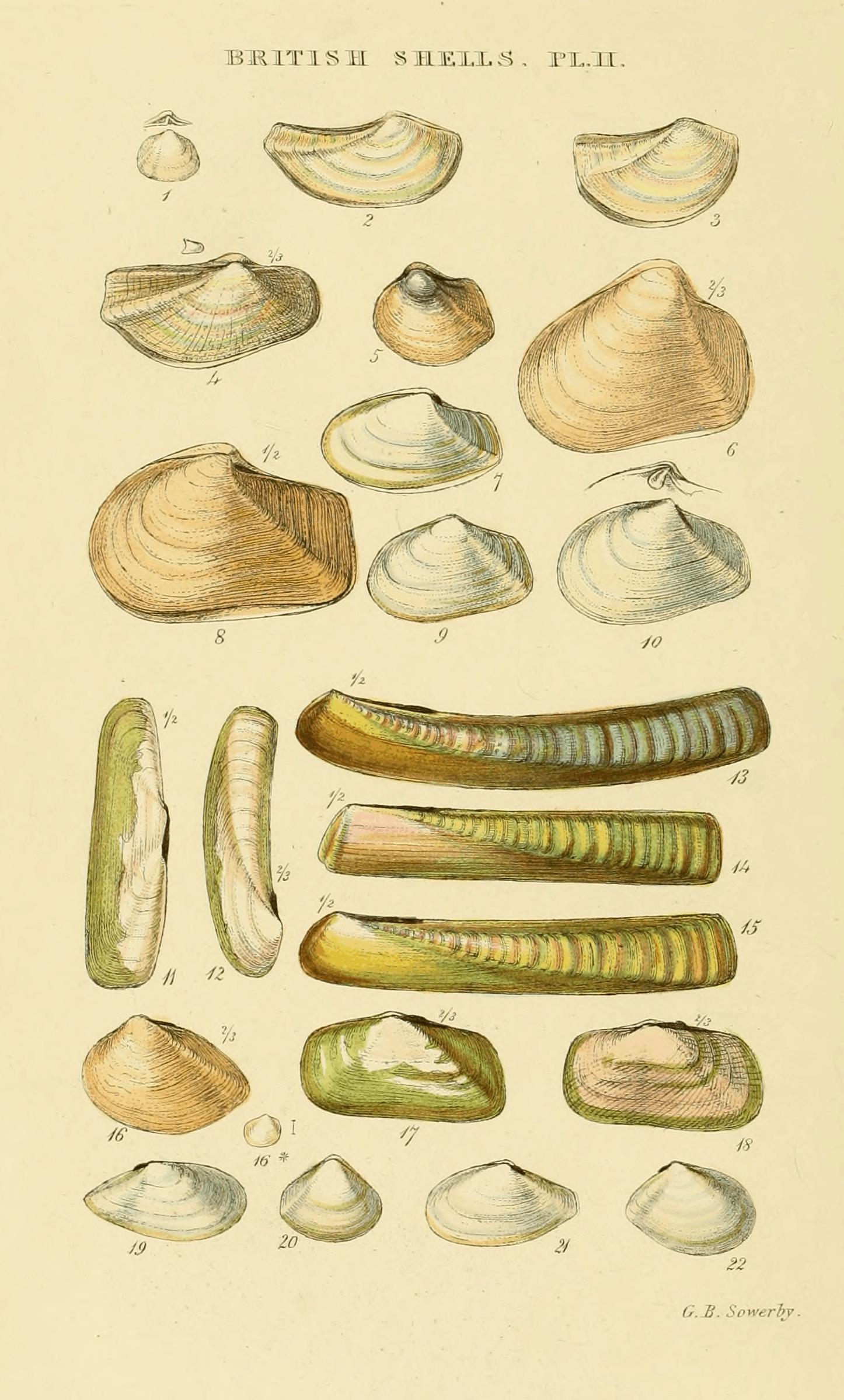 Illustrated Index of British Shells. Plate II. 1Poromya granulataPoromya granulata1*Poromya subtrigona(nomen dubium)2Pandora rostrataPandora albida3Pandora obtusaPandora pinna4Lyonsia norvegicaLyonsia norwegica5Thracia distortaThracia distorta6Thracia convexaThracia convexa7Thracia phaseolinaThracia phaseolina8Thracia pubescensThracia pubescens9Thracia villiosulcaThracia villosiuscula10Cochlodesma prætenueCochlodesma praetenue11Ceratisolen legumenPharus legumen12Solen pellucidusPhaxas pellucidus13Solen ensisEnsis ensis14Solen marginatusSolen marginatus15Solen siliquaEnsis siliqua16Diodonta fragilisGastrana fragilis16*Diodonta BarleeiDiplodonta rotundata17Solecurtus coarctatusAzorinus coarctatus18Solecurtus candidusSolecurtus candidus19Syndosmya prismaticaAbra prismatica20Syndosmya tenuisAbra tenuis21Syndosmya intermediaAbra nitida22Syndosmya albaAbra alba